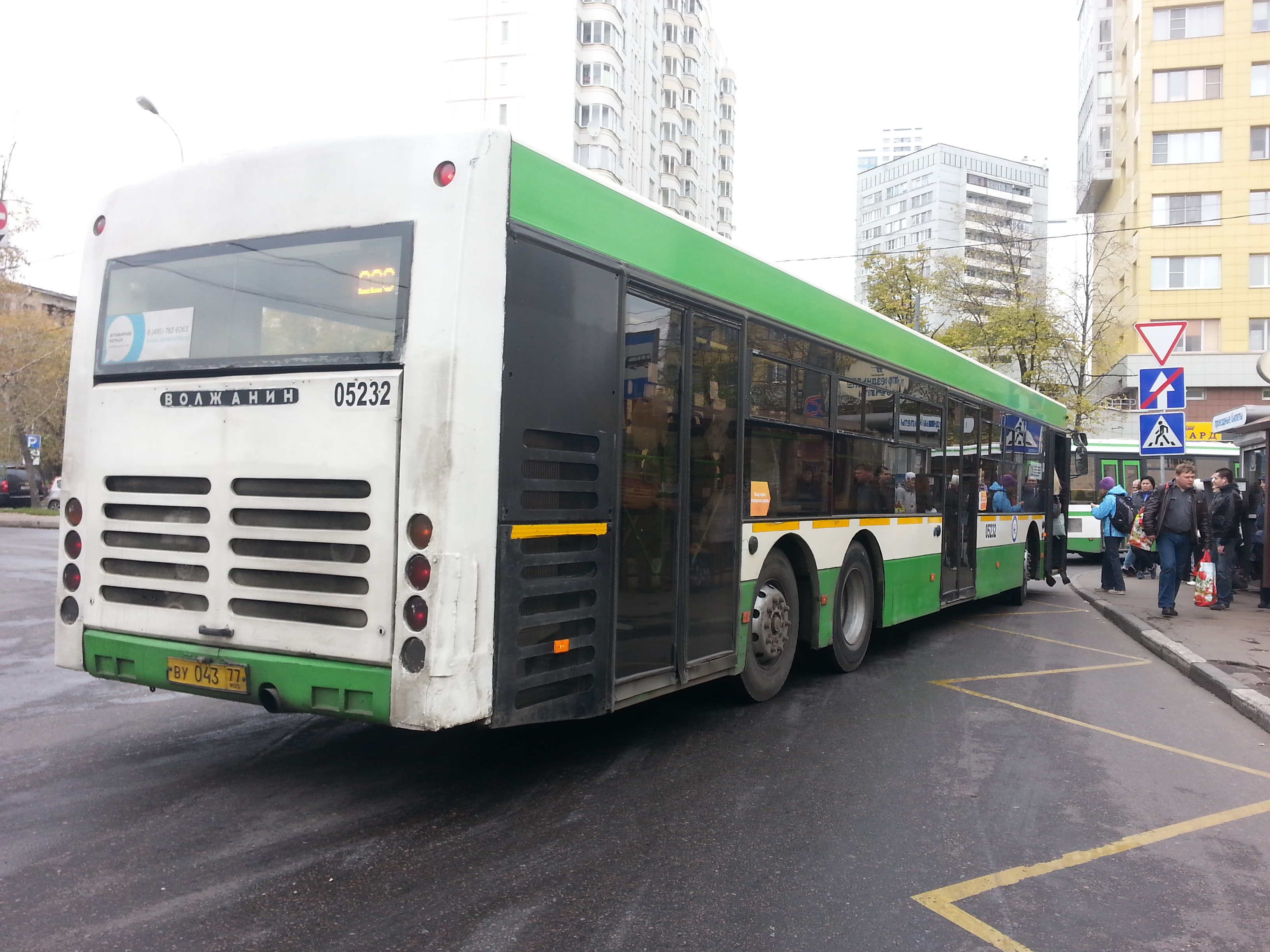 Volzhanin Cityrhythm-15 in Moscow, near the metro station Molodyozhnaya. Route 229.